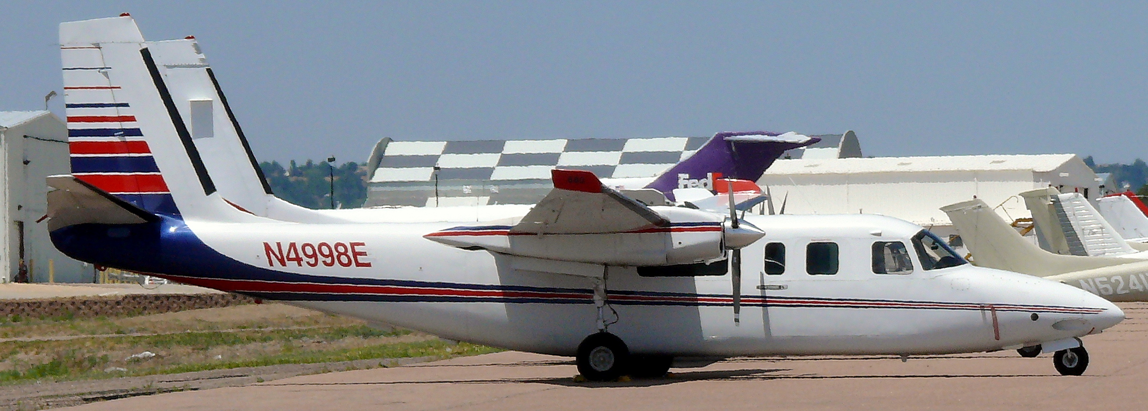 Aero Commander 680 at Colorado Springs Airport